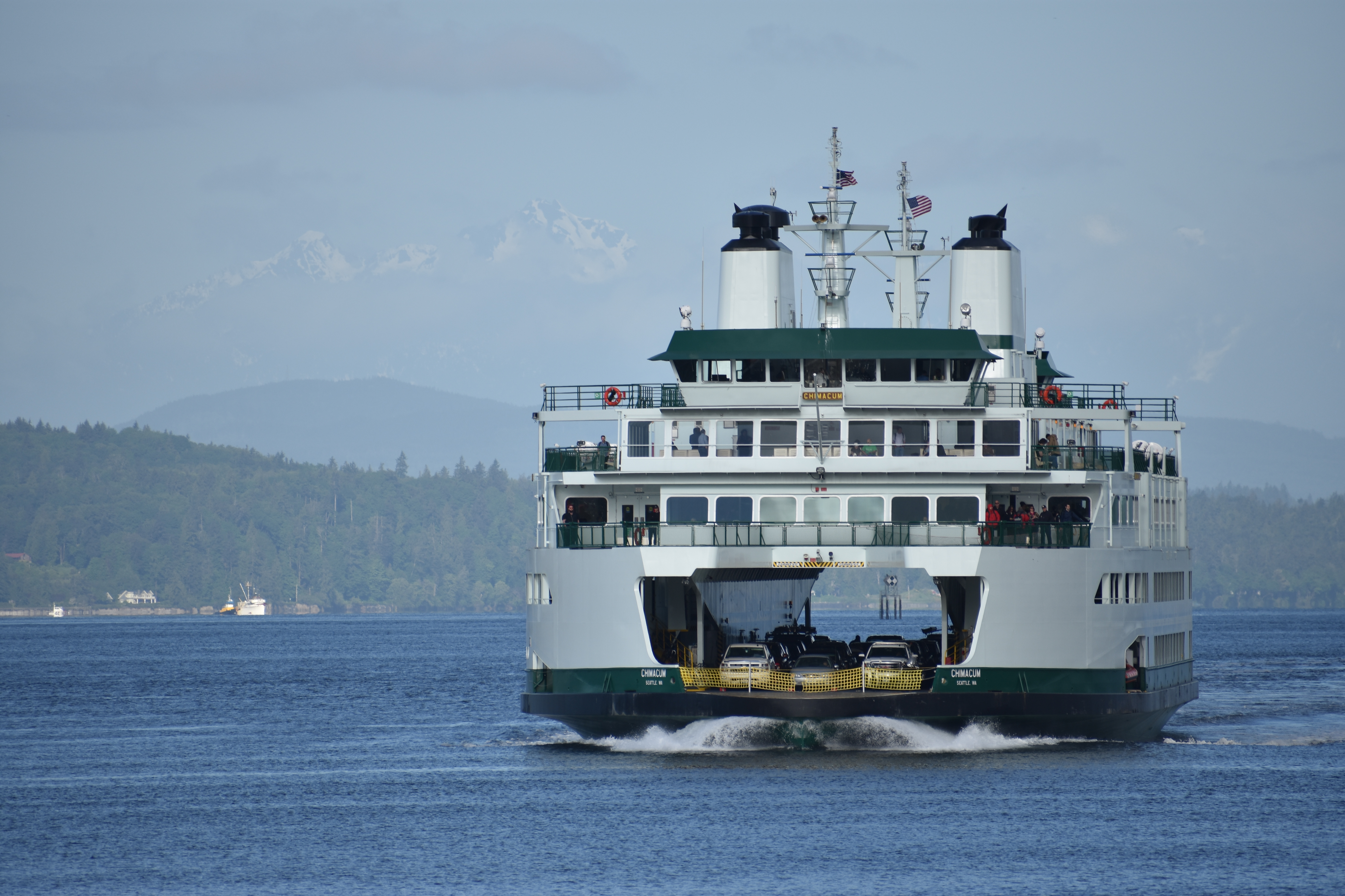 WSF's newest ferry on her first day of service.